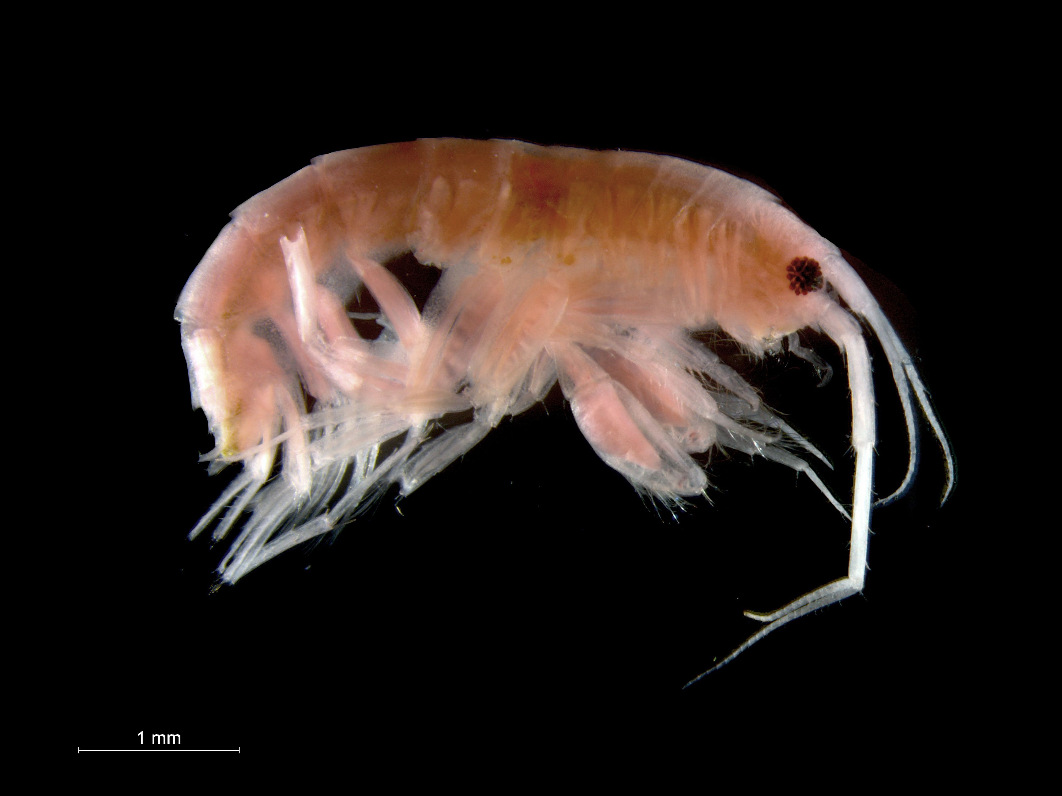 An amphipod sampled on mid-sized sediments on the Northern part of the Buitenratel (51°18′19.32″N 2°35′55.48″E / 51.3053667°N 2.5987444°E), on the Belgian Continental Shelf in 2011.